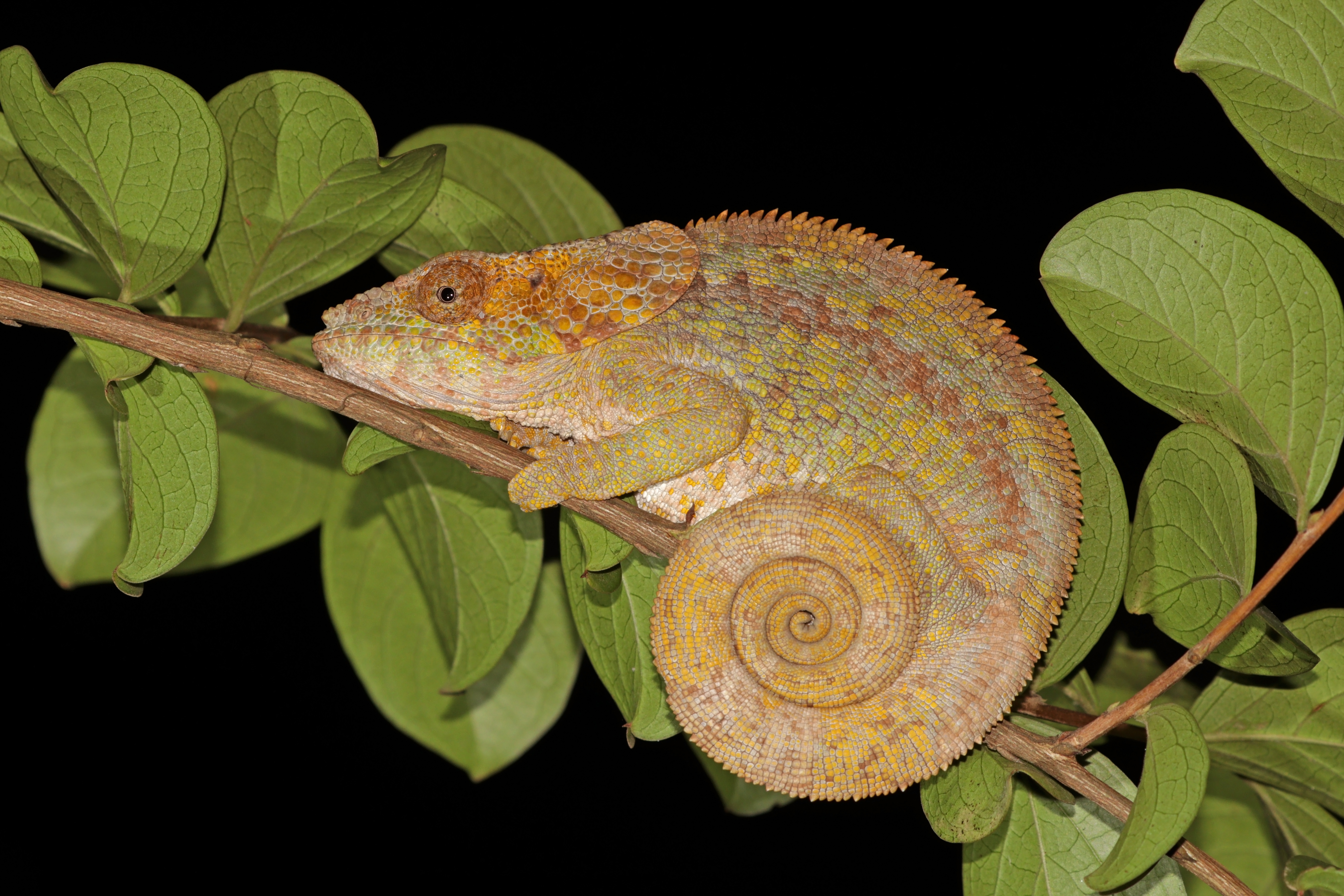 Short-horned chameleon (Calumma brevicorne) female, Andasibe, Madagascar